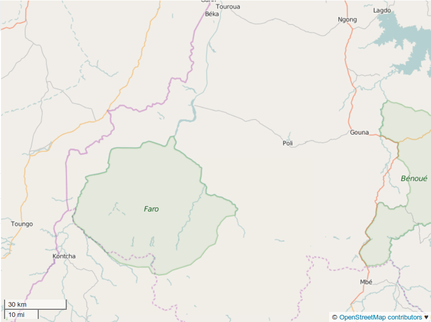 Faro National Park in Cameroon (OSM). This map may be incomplete, and may contain errors. Don't rely solely on it for navigation.